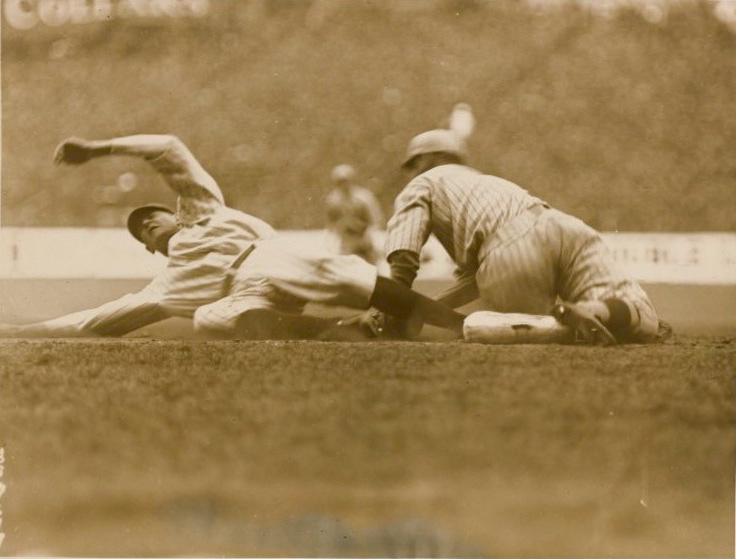 Original caption: Aaron Ward, second sacker of the Yankees, is put out at third, just a close bit of action from the first game in the new Yankee Stadium in New York yesterday, when 74,000 shivering fans saw Babe Ruth bust out a homer and the New Yorkers defeat the Boston Red Sox by 4 to 1. This happened in the fourth inning. 4/19/23. Image courtesy of the New York Public Library , "The Pageant of America" Collection / v.15 - Annals of American sport / (unpublished photographs) / Baseball.